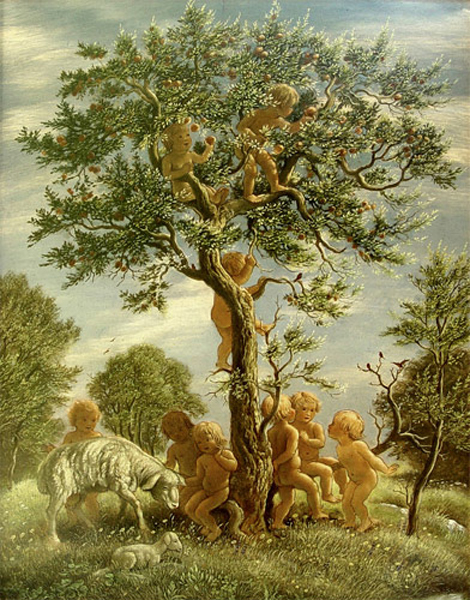 The Children's Paradise